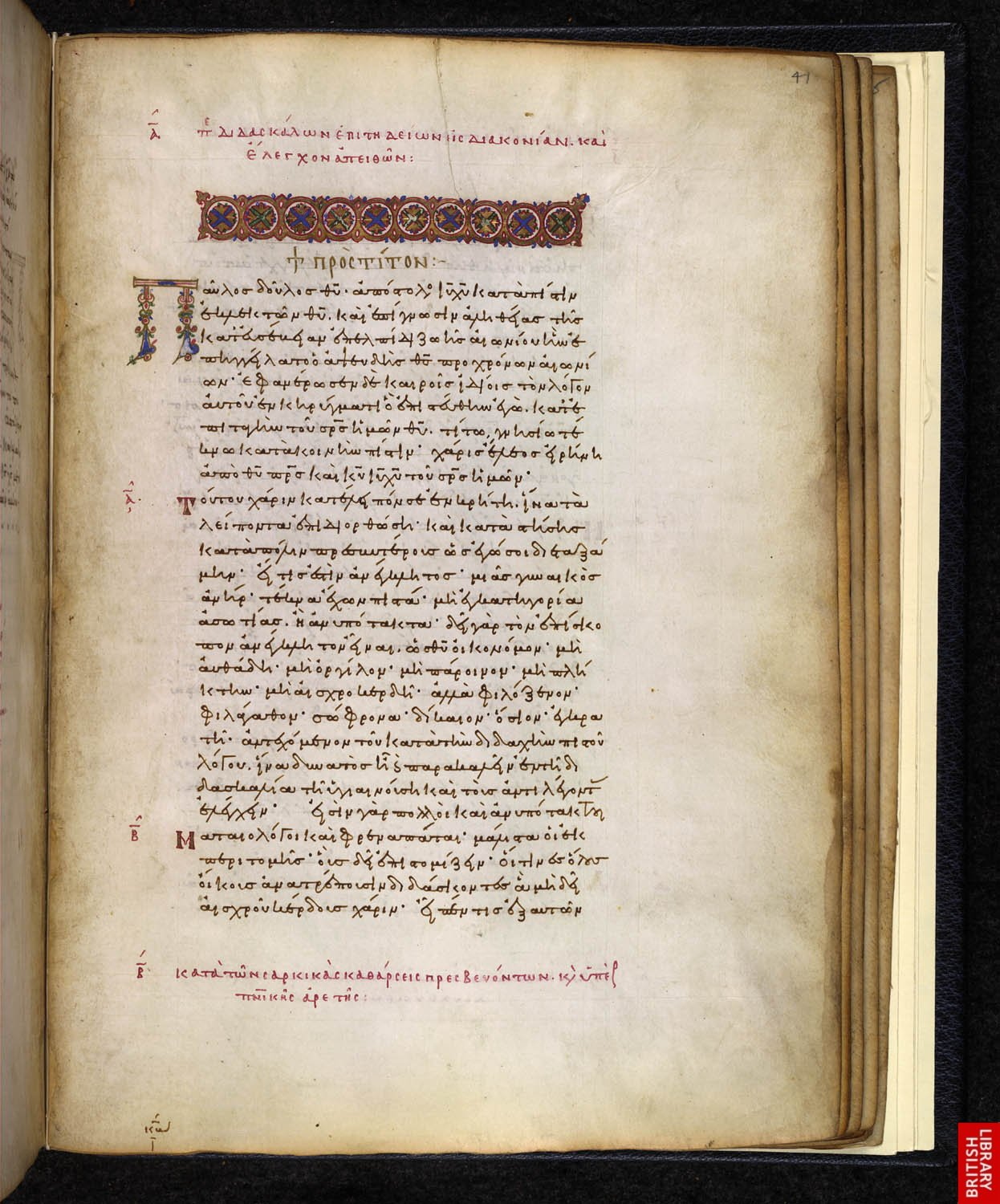 Folio 41 verso, beginning of the Epistle to Titus; decorated headpiece